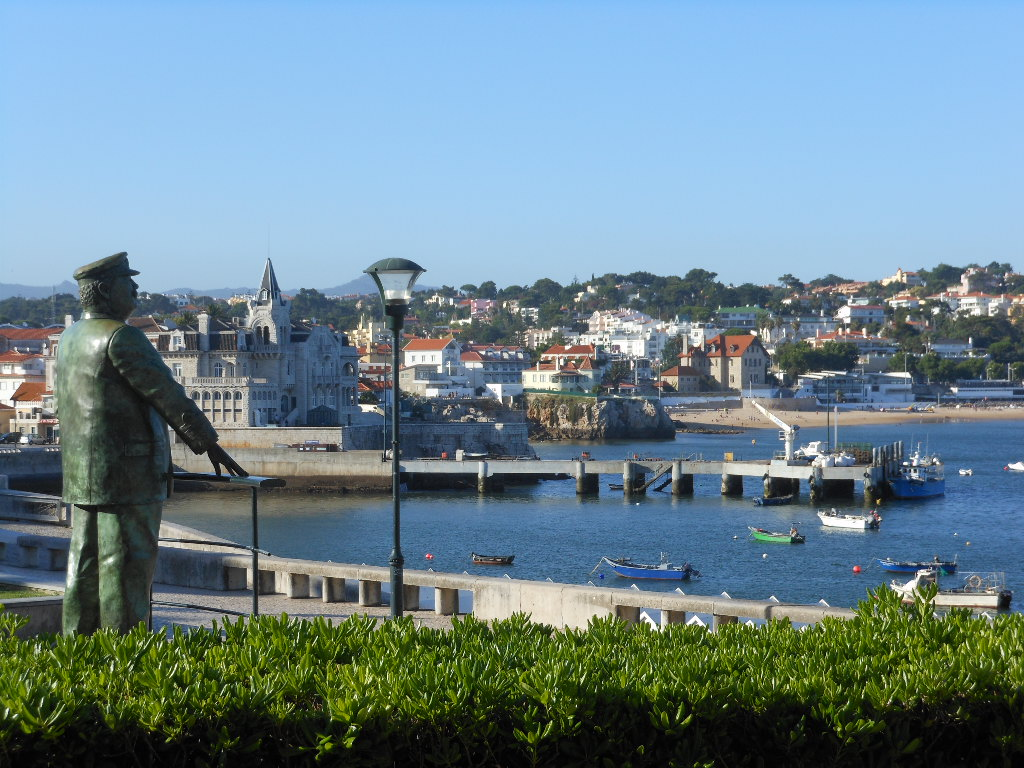 Captain Surveys the Bay